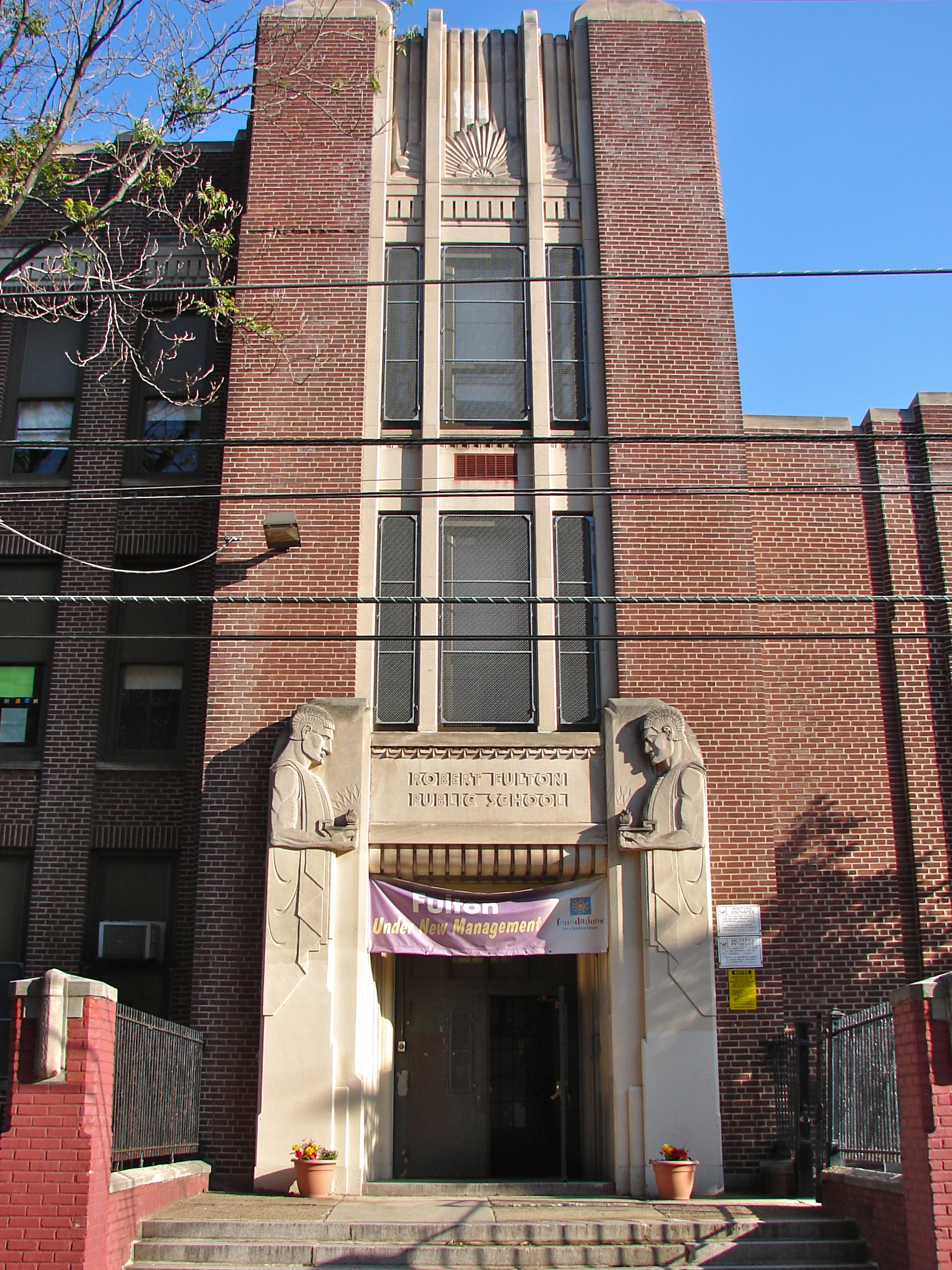 Robert Fulton School in Philadelphia on the NRHP since December 4, 1986. At 60–68 East Haines Street in the Morton neighborhood of NW Philly.